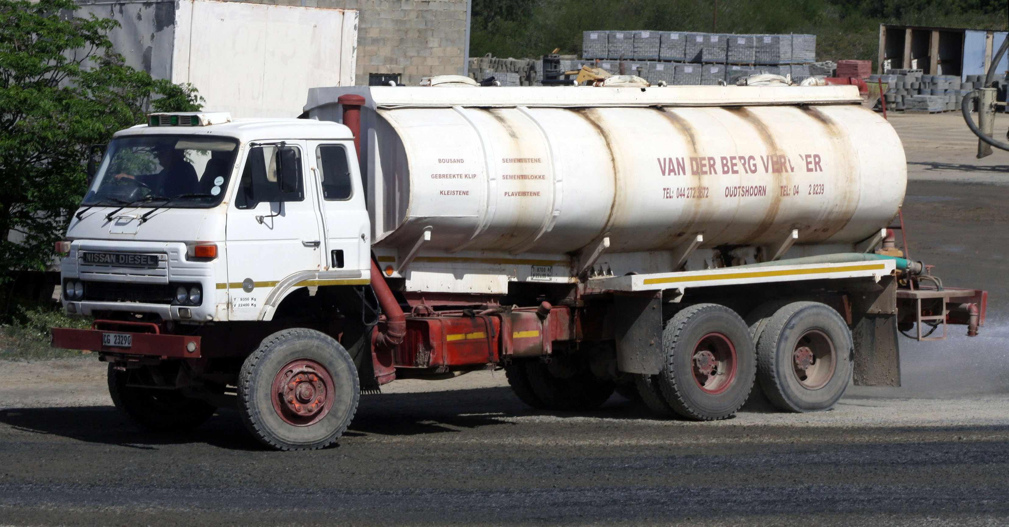 Nissan Diesel CW41 water tanker, Oudtshoorn, South Africa